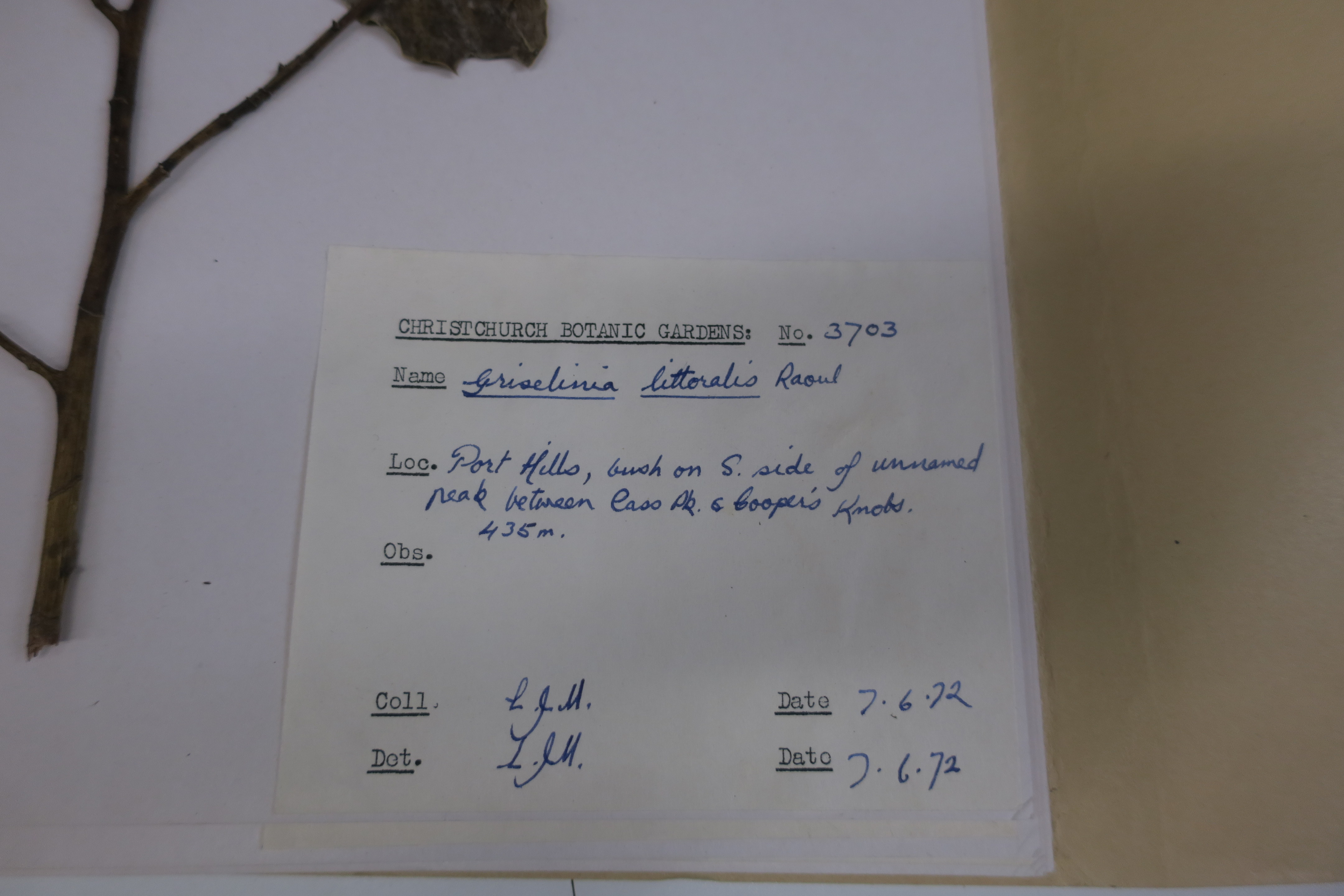 Horticulturalist and botanist, Lawrie Metcalf was the Assistant Curator and Assistant Director at Christchurch Botanic Garden. This Griselinia littoralis specimen label was signed by him.